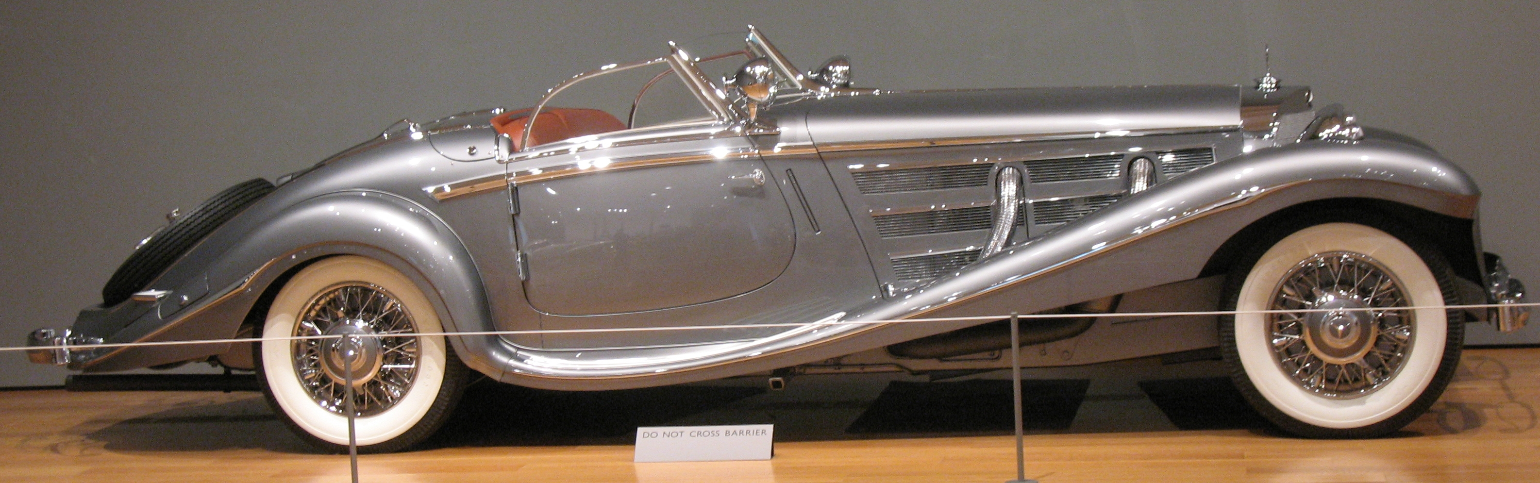 1937 Mercedes-Benz 540K Special-Roadster Baroness Gisela Von Krieger used this car to escape Nazi Germany just as the war broke out. Other owners of Special-Roadsters were Hermann Goering adn Jack Warner (of Warner Brothers fame). The Special-Roadster was built only to special order. Twenty-six were completed before the war.